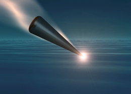 Incoming ballistic warhead. Artist's conception of a reentry vehicle passing through the atmosphere. The sharp, conical shape.